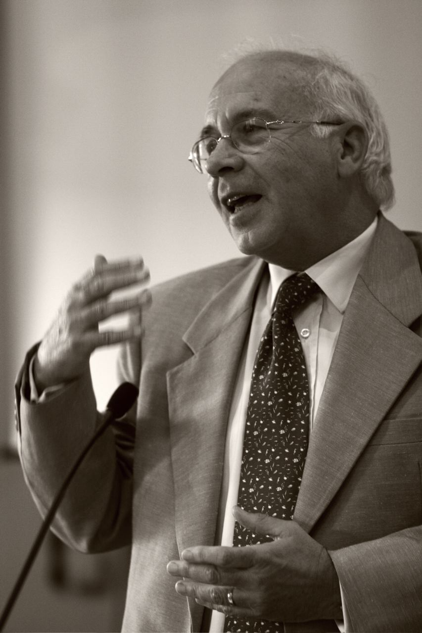 Ugo Perone